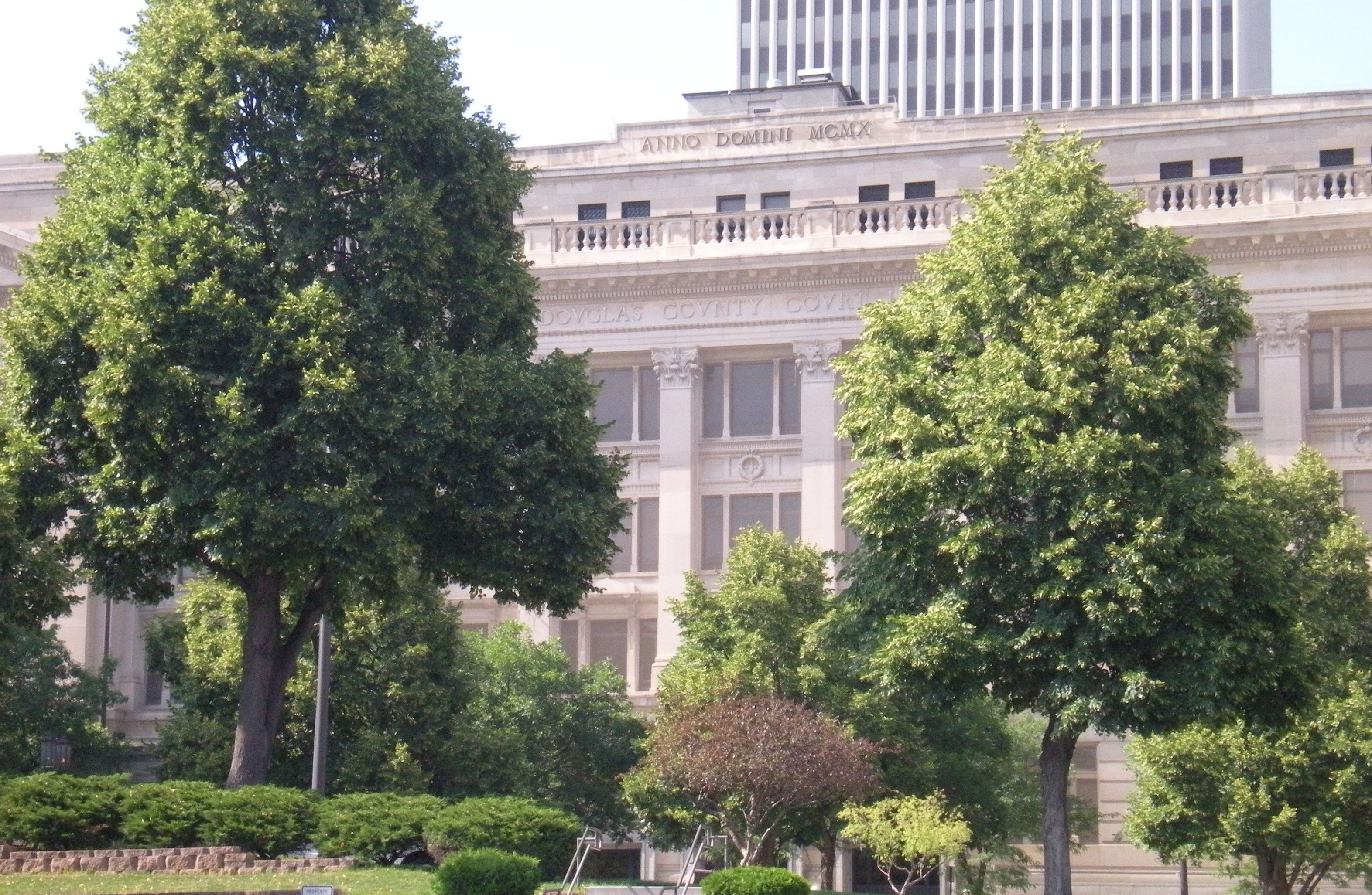 I took this photo of the Douglas County Courthouse in 2008